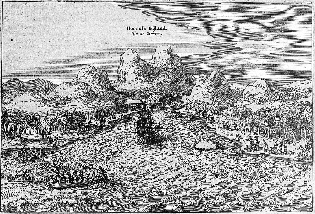 Engraving taken from the book Journal ou description du merveilleux voyage de Guillaume Schouten (1618), showing Dutch crew of Willem Schouten fighting with Futunan natives in 1616.